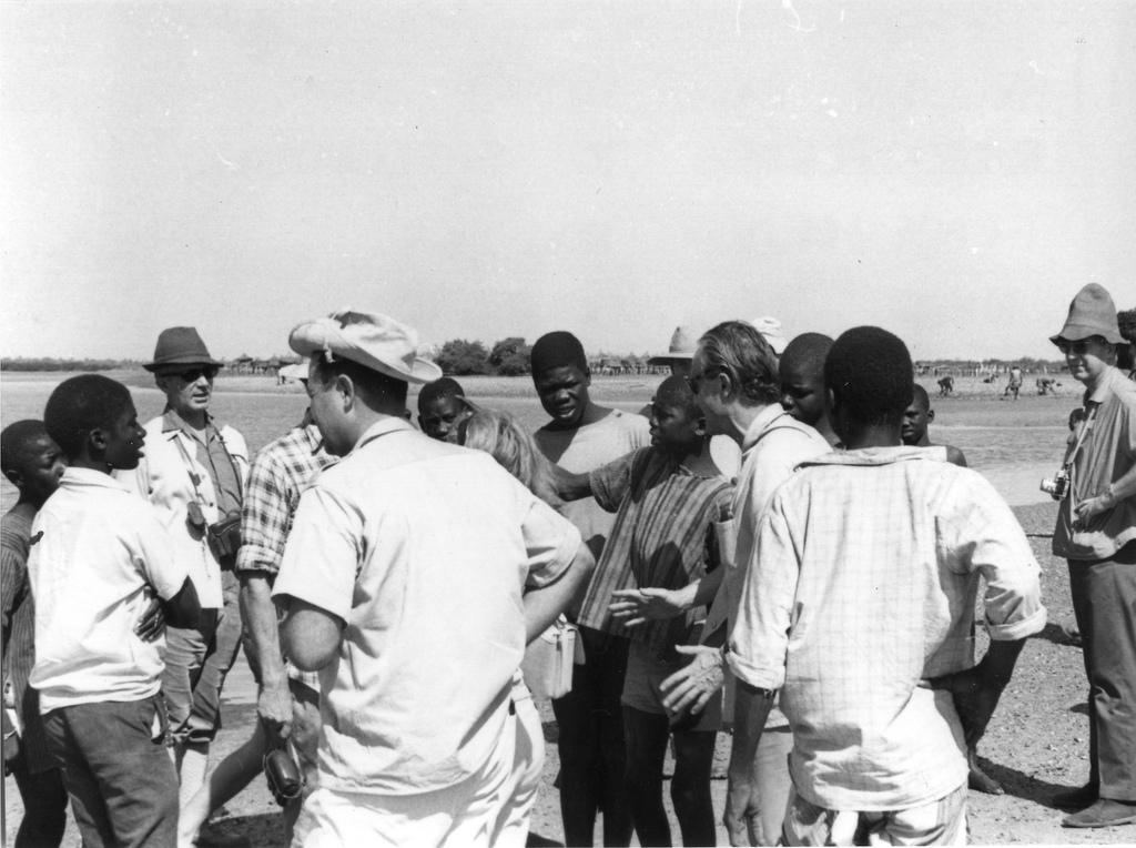 Archaeologist / Historian Raymond Mauny negotiates a price for boats to take us to the cemetery island near Fadiouth, Senegal (West Africa). This is before the bridge to the island was built. Among those standing around watching him is Frank Willett on the far right.